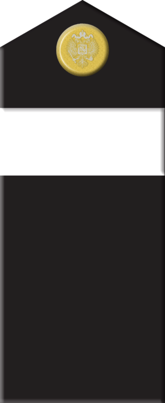 Rank insignia of the Imperial Russian Navy (IRB) until 1917, here "Bootsmann" .